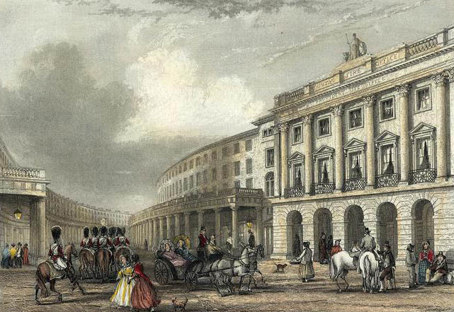 The Quadrant in Regent Street, London seen from Piccadilly Circus.